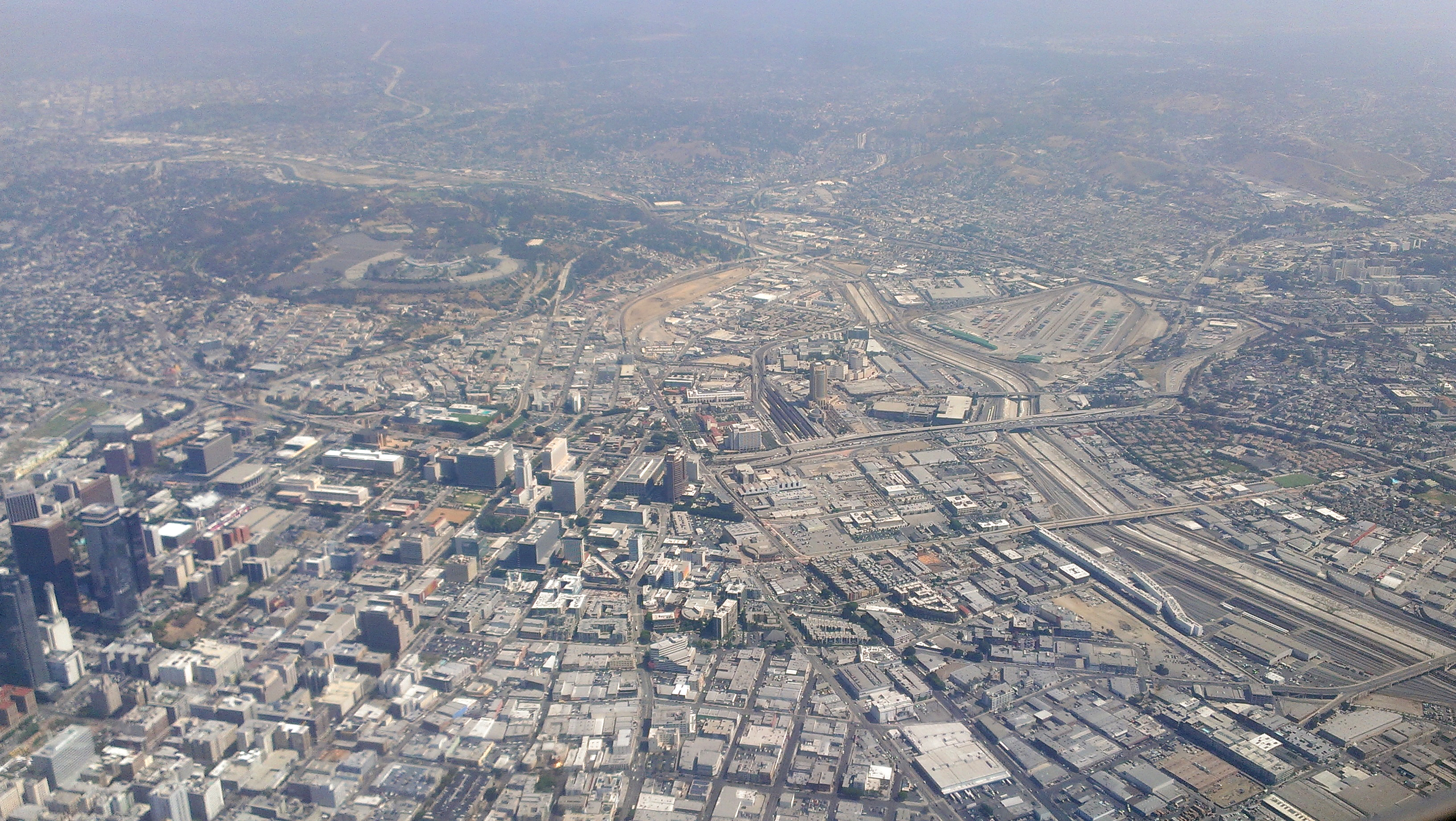 Los Angeles River to right.